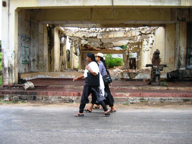 Students from Jaffna walking past a war ruined building in 2007. Originally published by me in